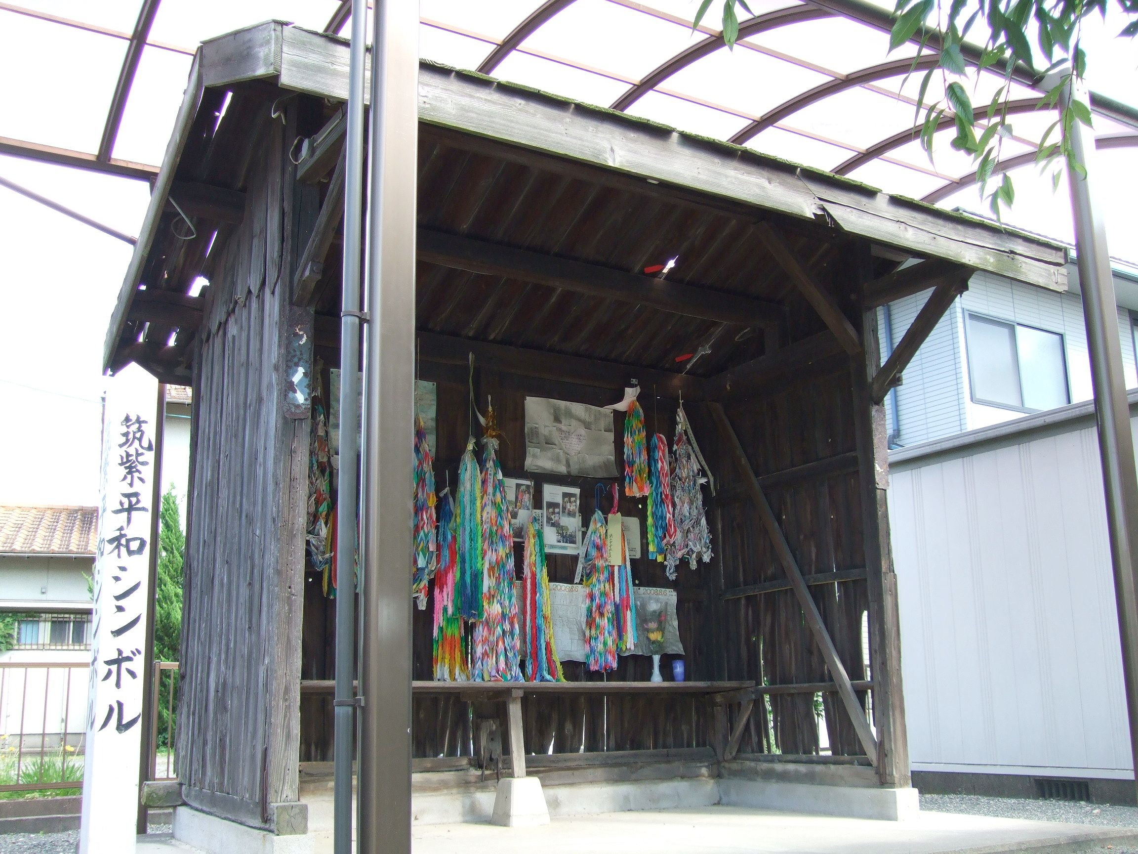 Former waiting room of Chikushi Station, preserved at Chikushino City Hall Chikushi Branch